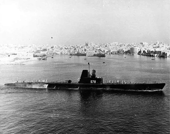 HS_Poseidon; Poseidon (S-78) (Greek Navy), ex-USS Lapon (SS-260) in 1961. USN photo courtesy of .